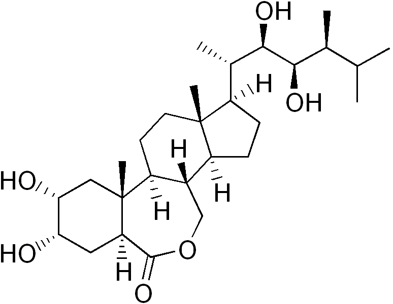 chemical structure of brassinolide